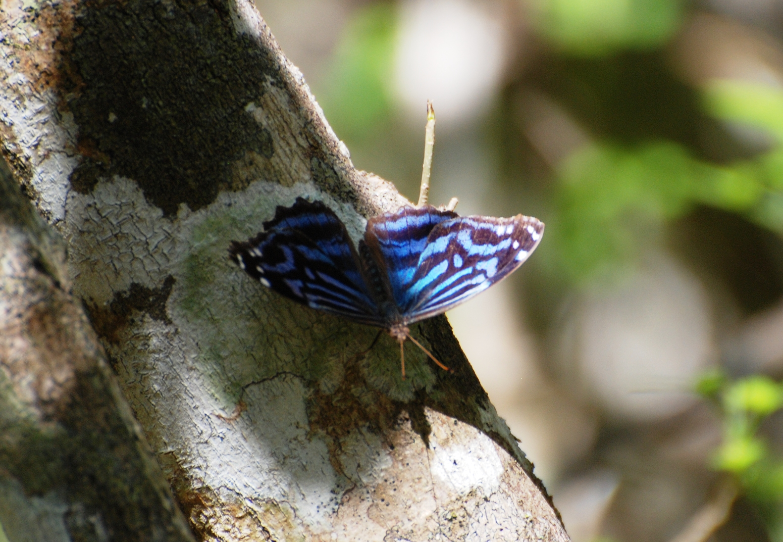 Butterfly in Calakmul